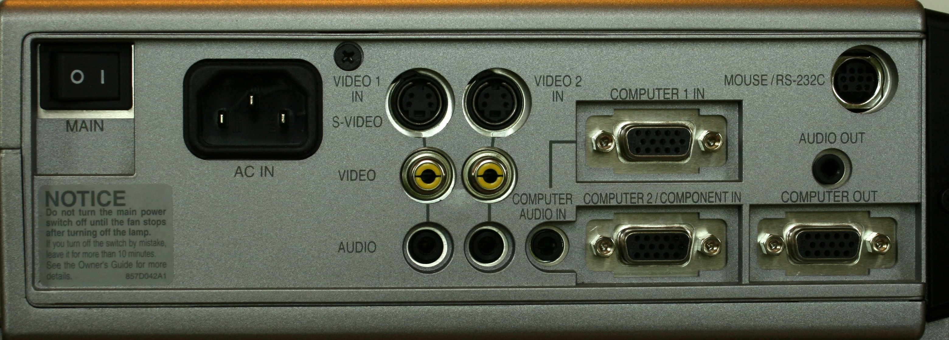 Side panel of a Mitsubishi Electric XD300U DLP video projector, showing the A/V inputs and outputs.